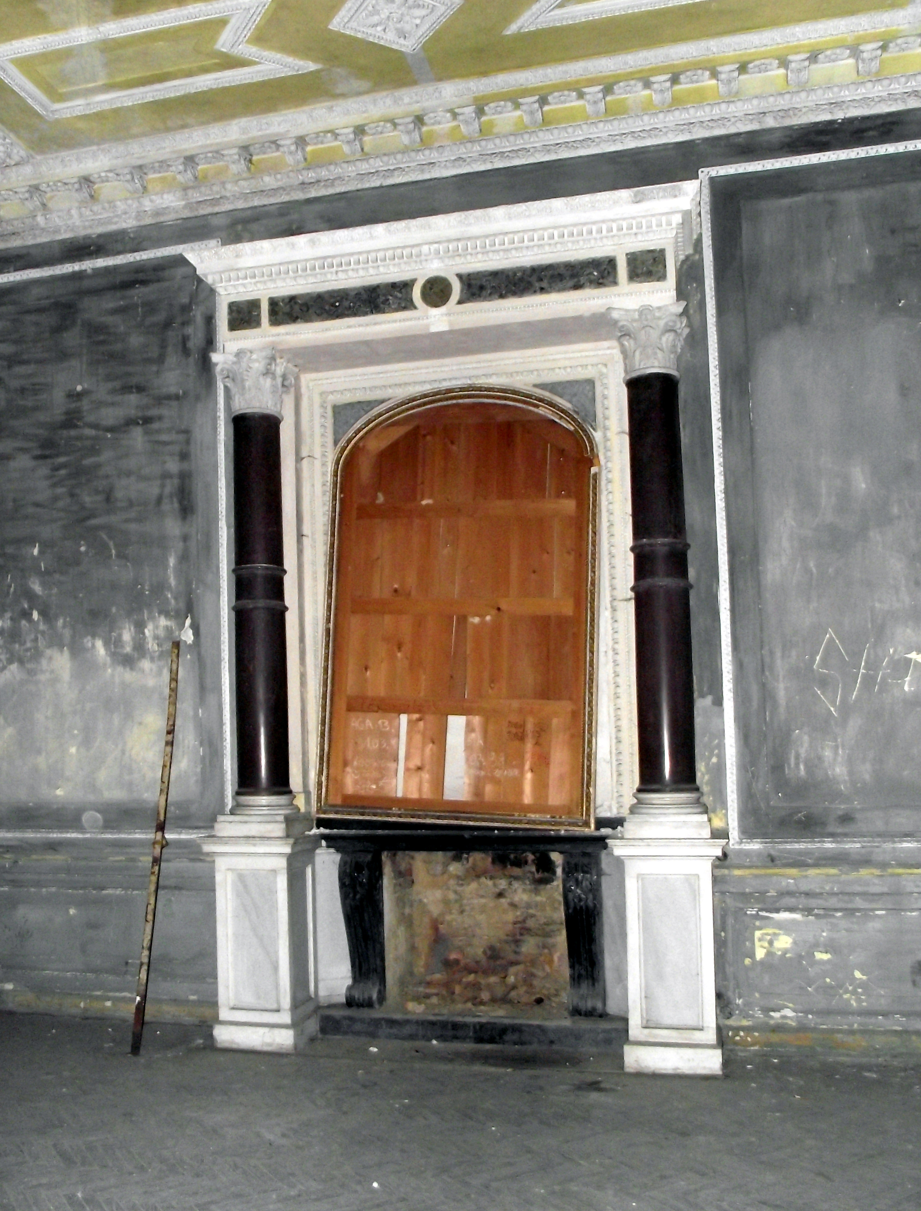 Interiors of the devastated Potocki Palace in Krzeszowice, Poland.